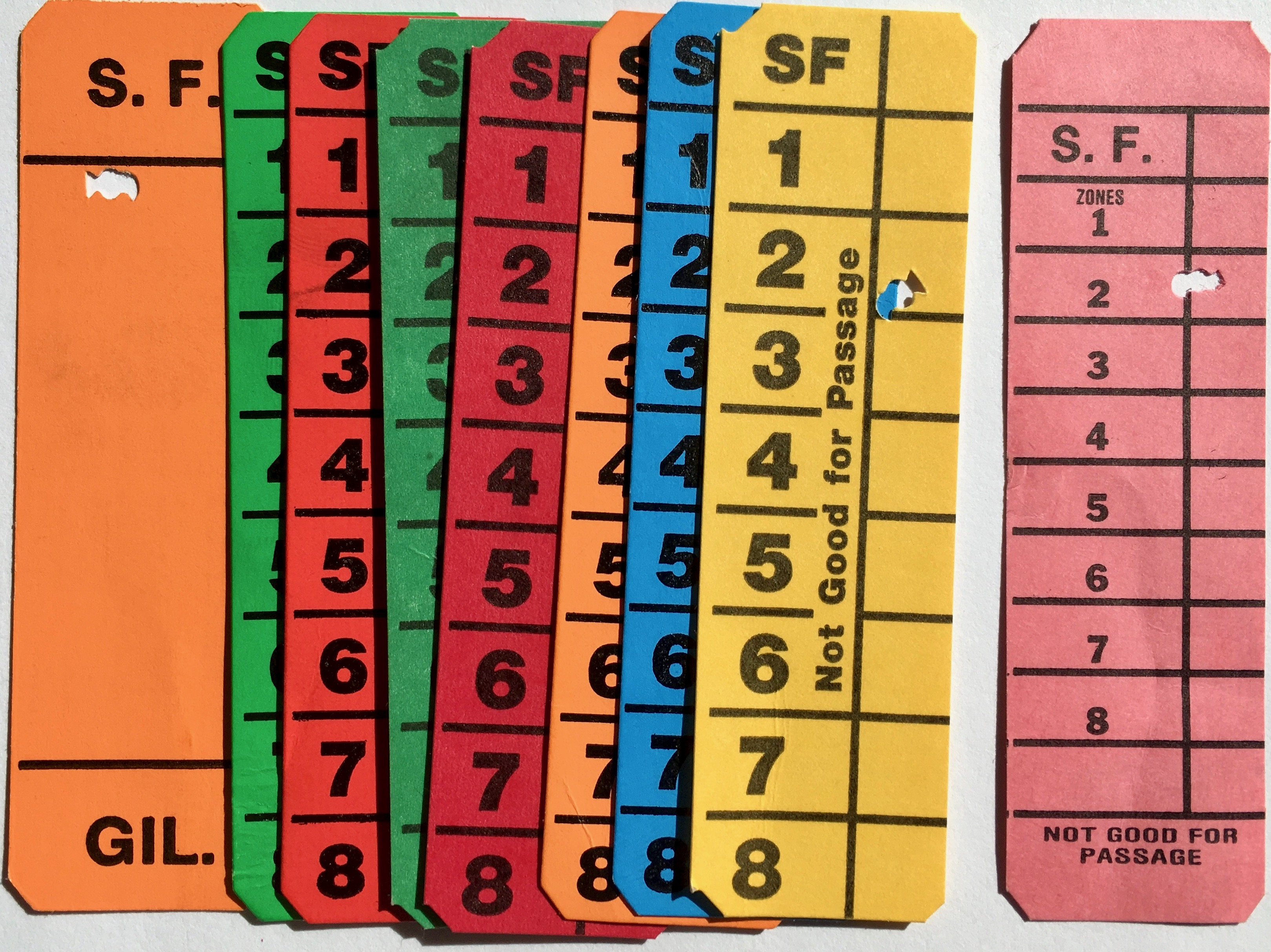 After conductors took or verified payment your seat was marked as paid between points. Colors varied by day.